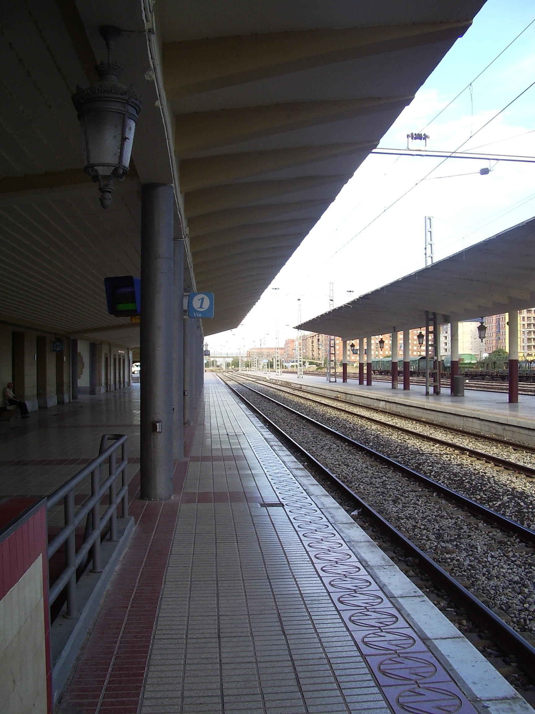 Old RENFE railway station of Logroño, Spain. View of the platforms, towards the east.